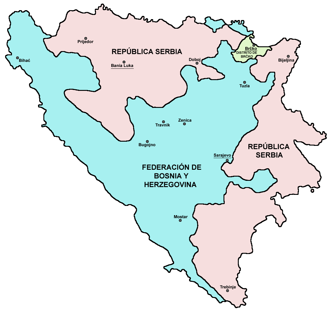 Political division of Bosnia and Herzegovina - Spanish language version.